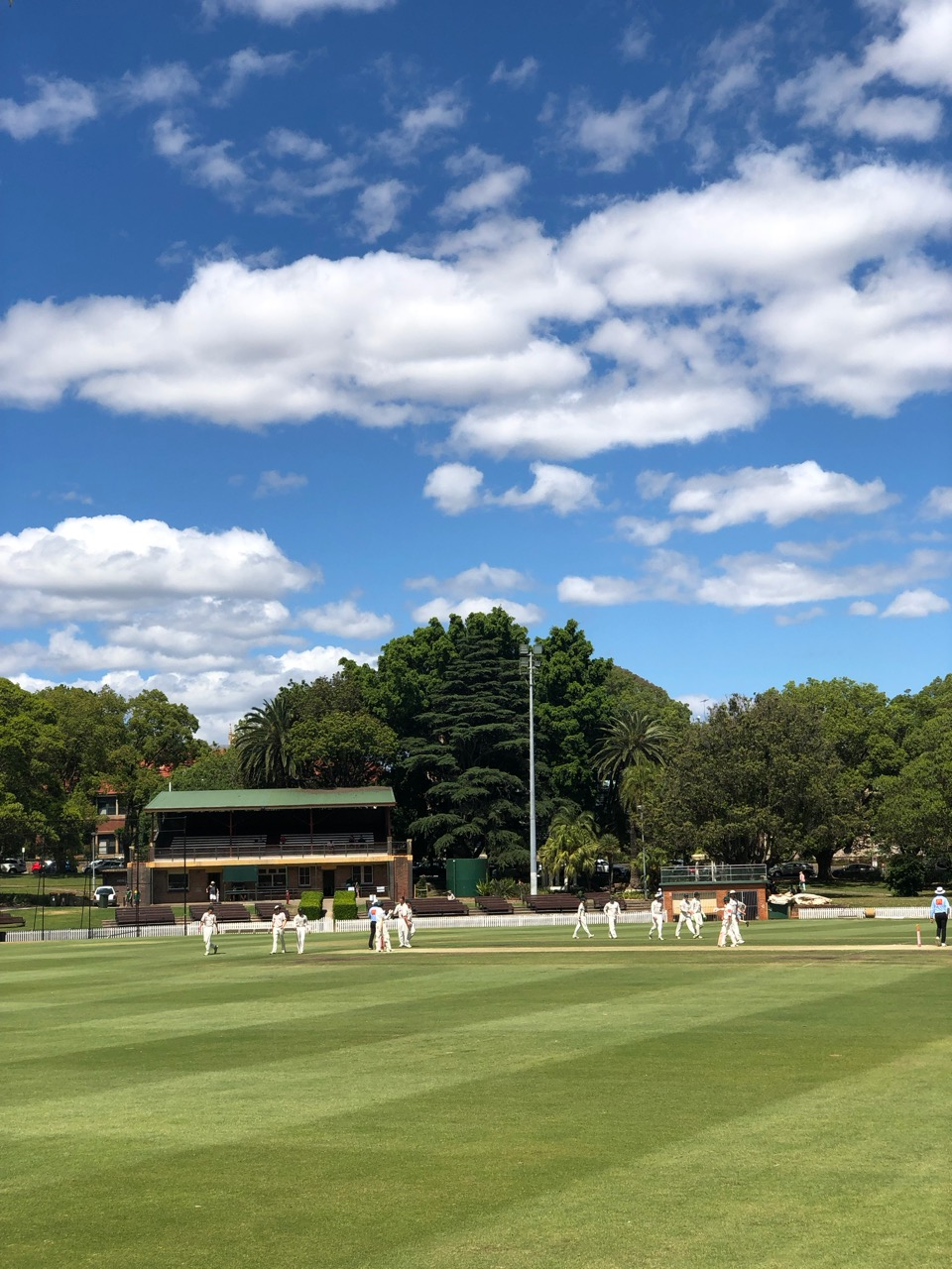 Cricket game in progress on Petersham Oval